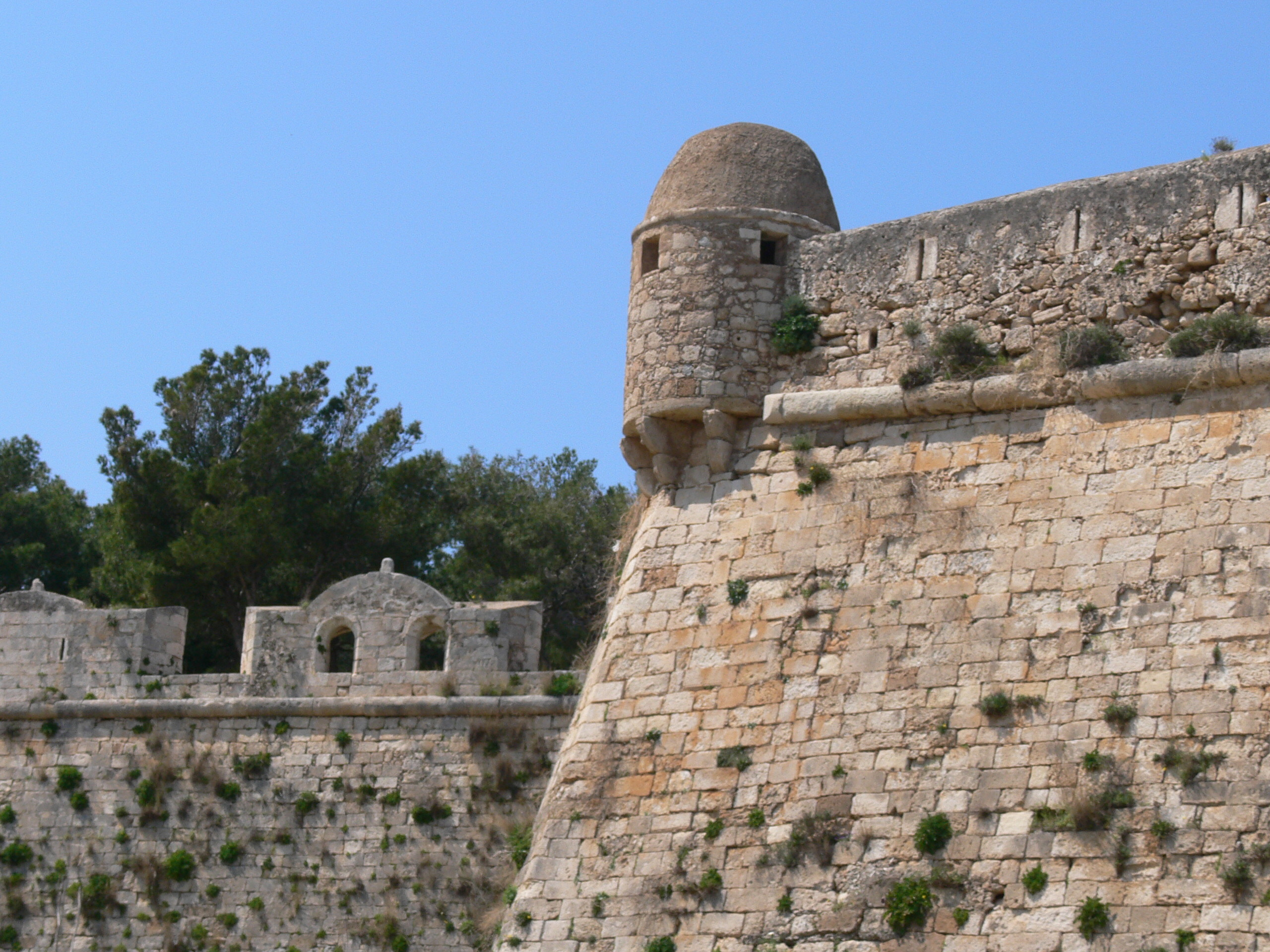 Rethymno fortress ( Crete ). Bastion from the outside.